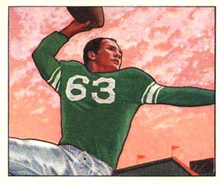 Former National Football League quarterback Y.A. Tittle illustrated on a 1950 Bowman Gum football card with the Baltimore Colts